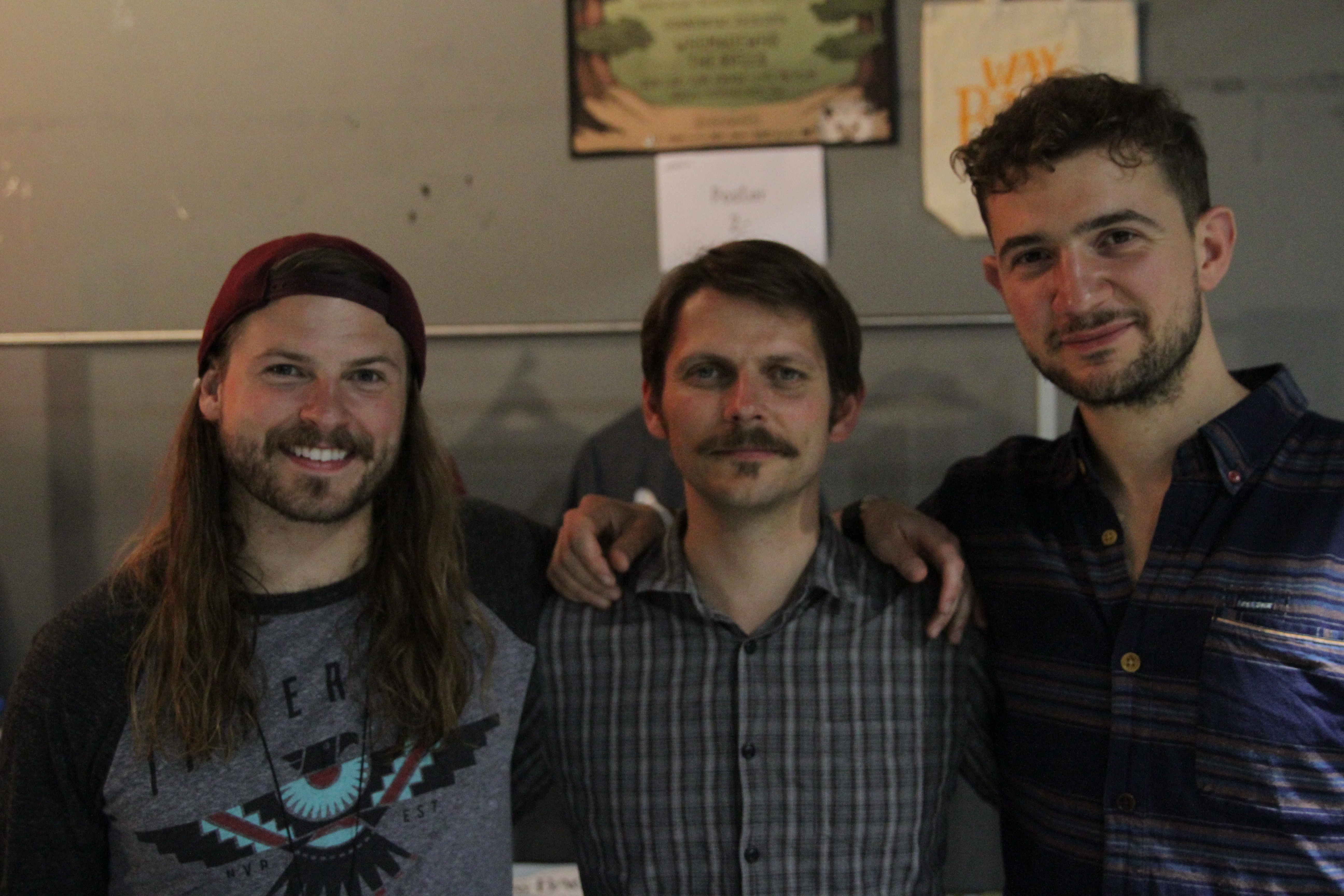 Mighty Oaks auf dem Way Back When Festival 2014.